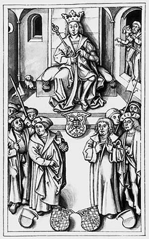 The Kölner Schiedsspruch of 1505. King Maximilian I resolves the War of Succesion in Bavaria-Landshut.